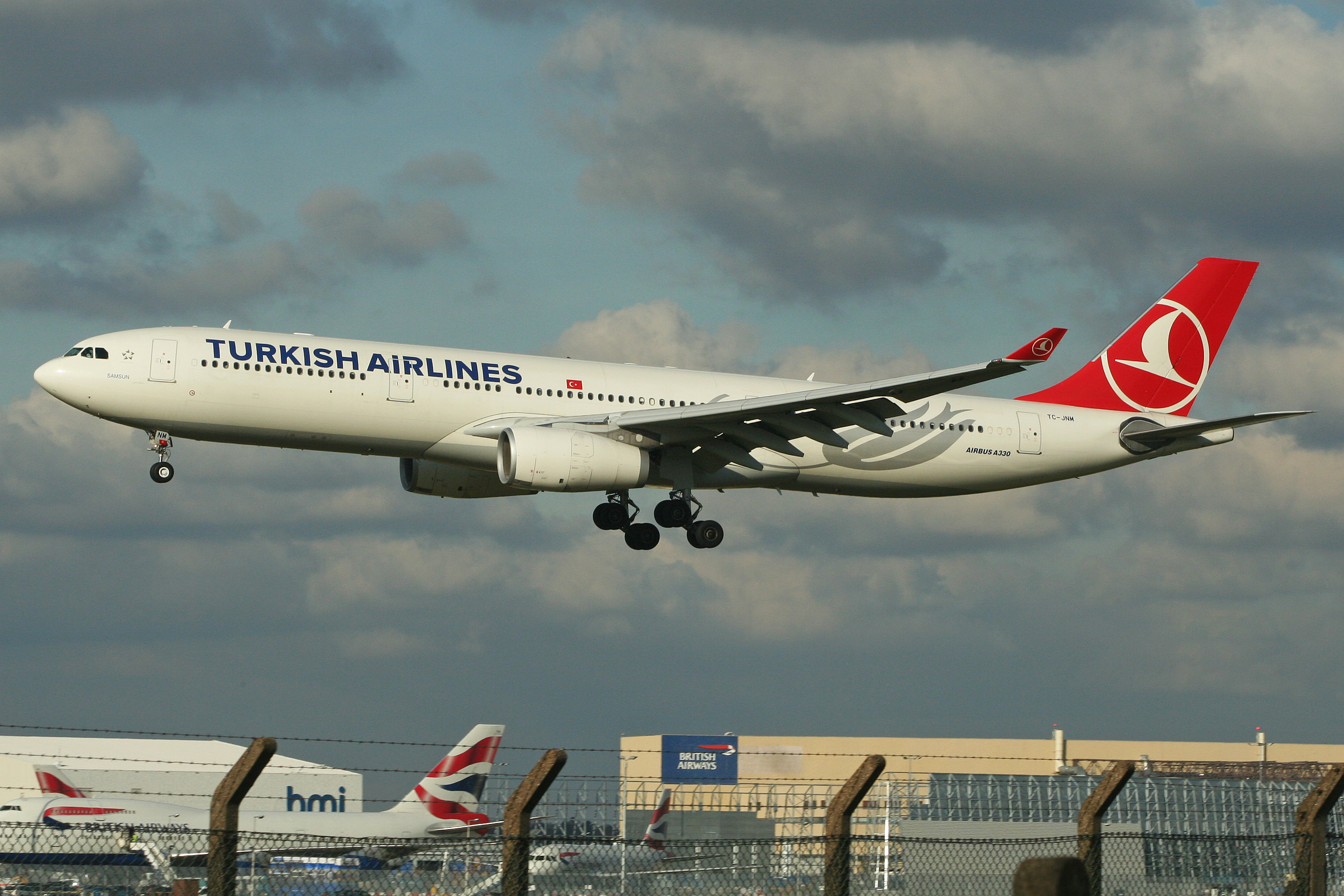 msn 1212. Arriving on flight TK1985 / 5KP from Istanbul. London Heathrow. 26-2-2012